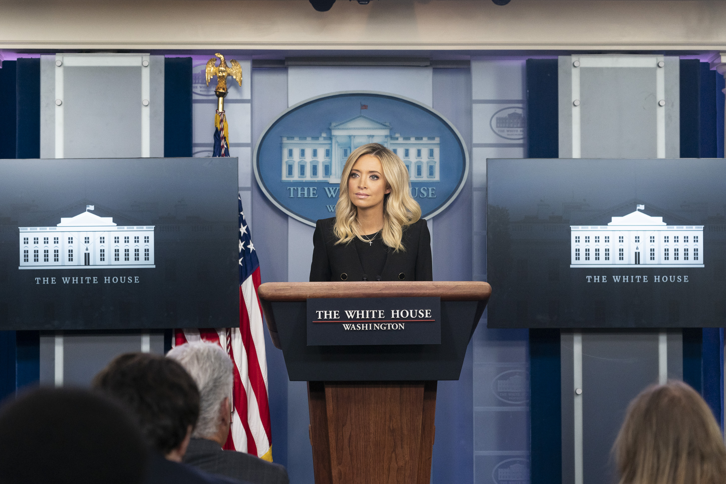 White House Press Secretary Kayleigh McEnany listens to a reporter’s question at a White House press briefing Friday, May 1, 2020, in the James S. Brady Press Briefing Room of the White House. (Official White House Photo by Joyce N. Boghosian)